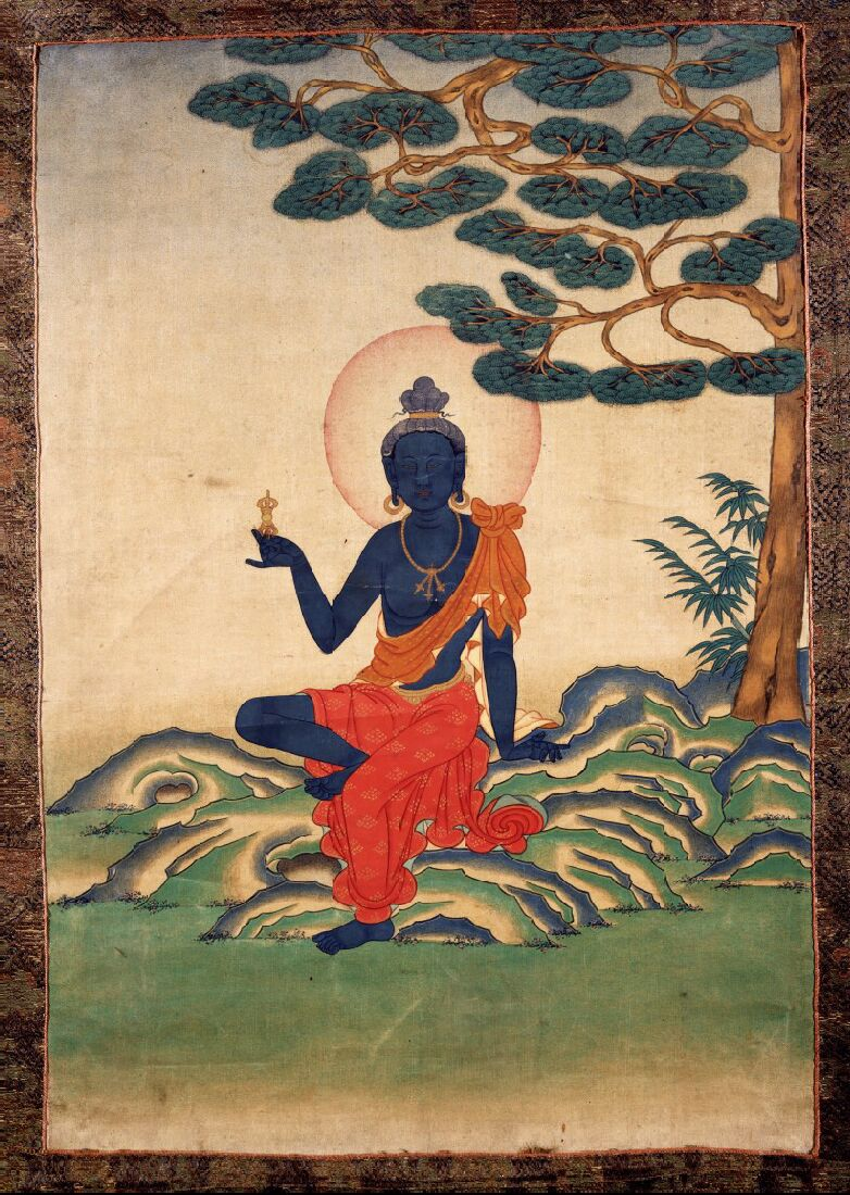 Vajrapani